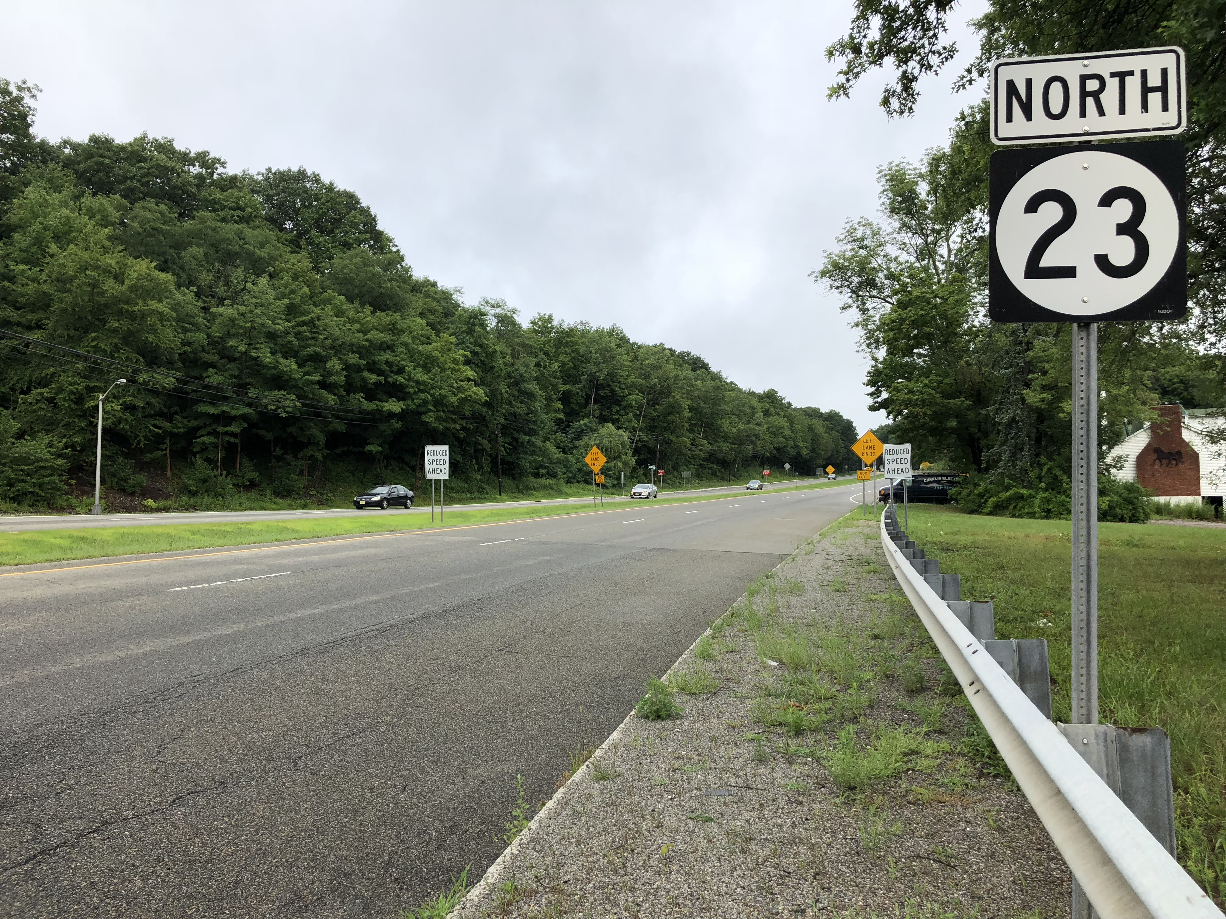 View north along New Jersey State Route 23 at Sussex County Route 515 (Stockholm-Vernon Road) in Hardyston Township, Sussex County, New Jersey